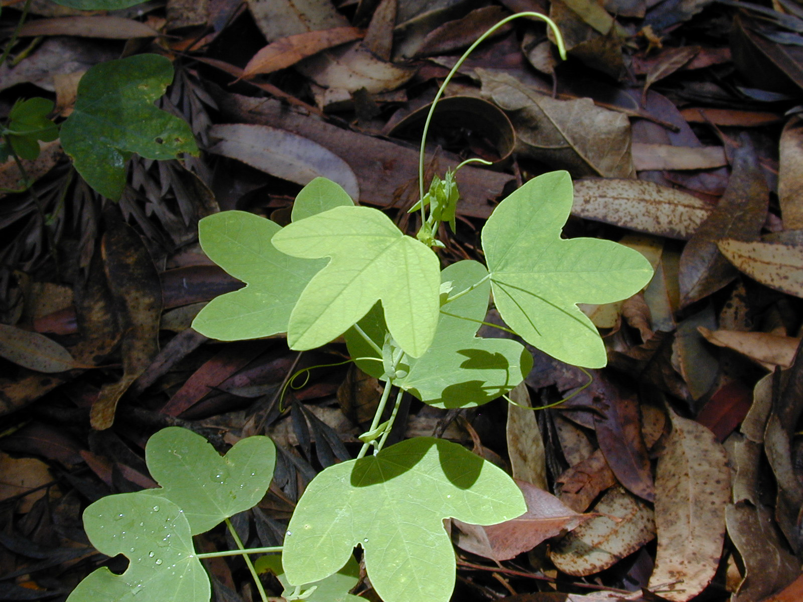 Passiflora subpeltata (leaves). Location: Maui, Makawao Forest Reserve